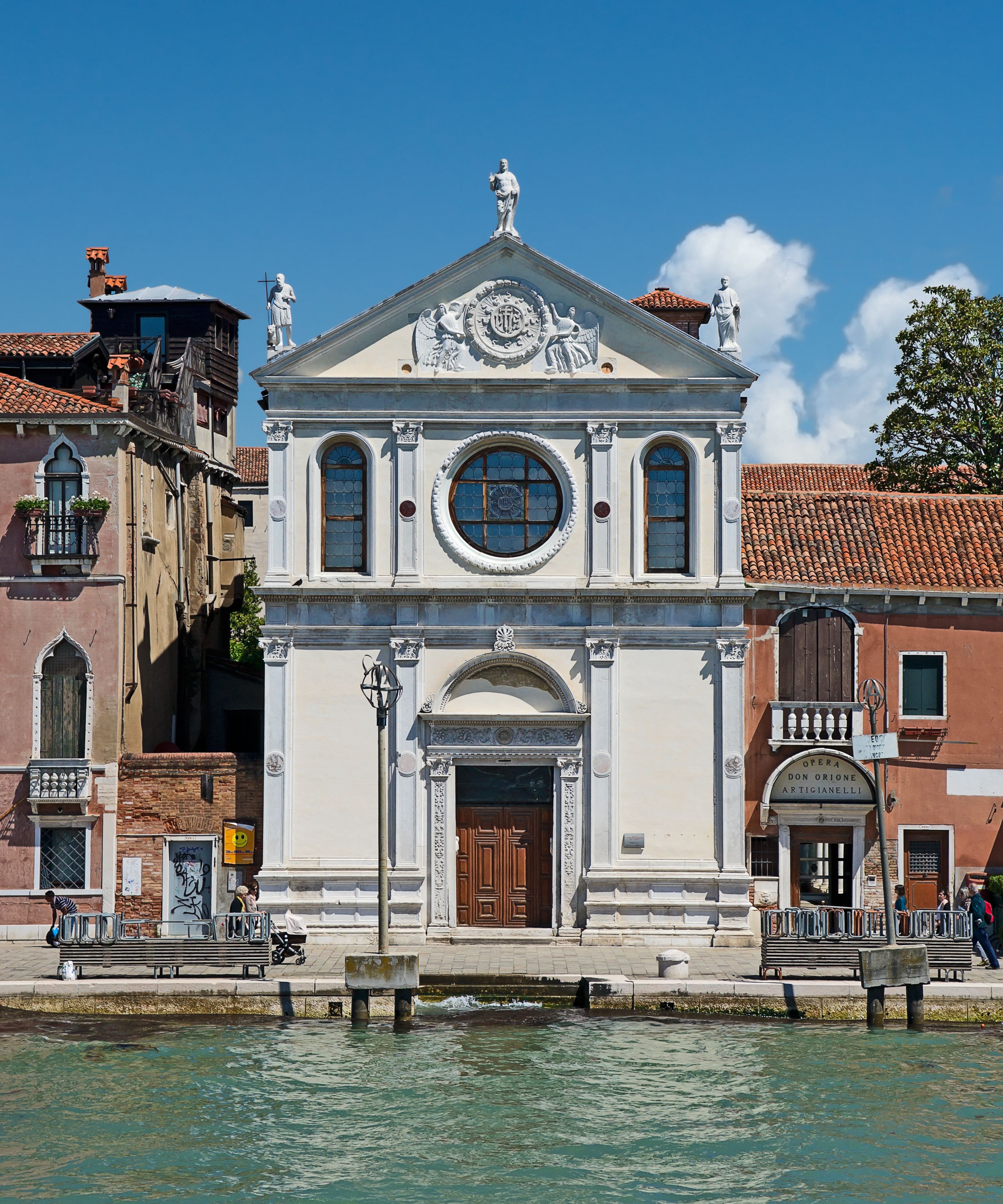 Santa Maria della Visitazione in Venice , facade.